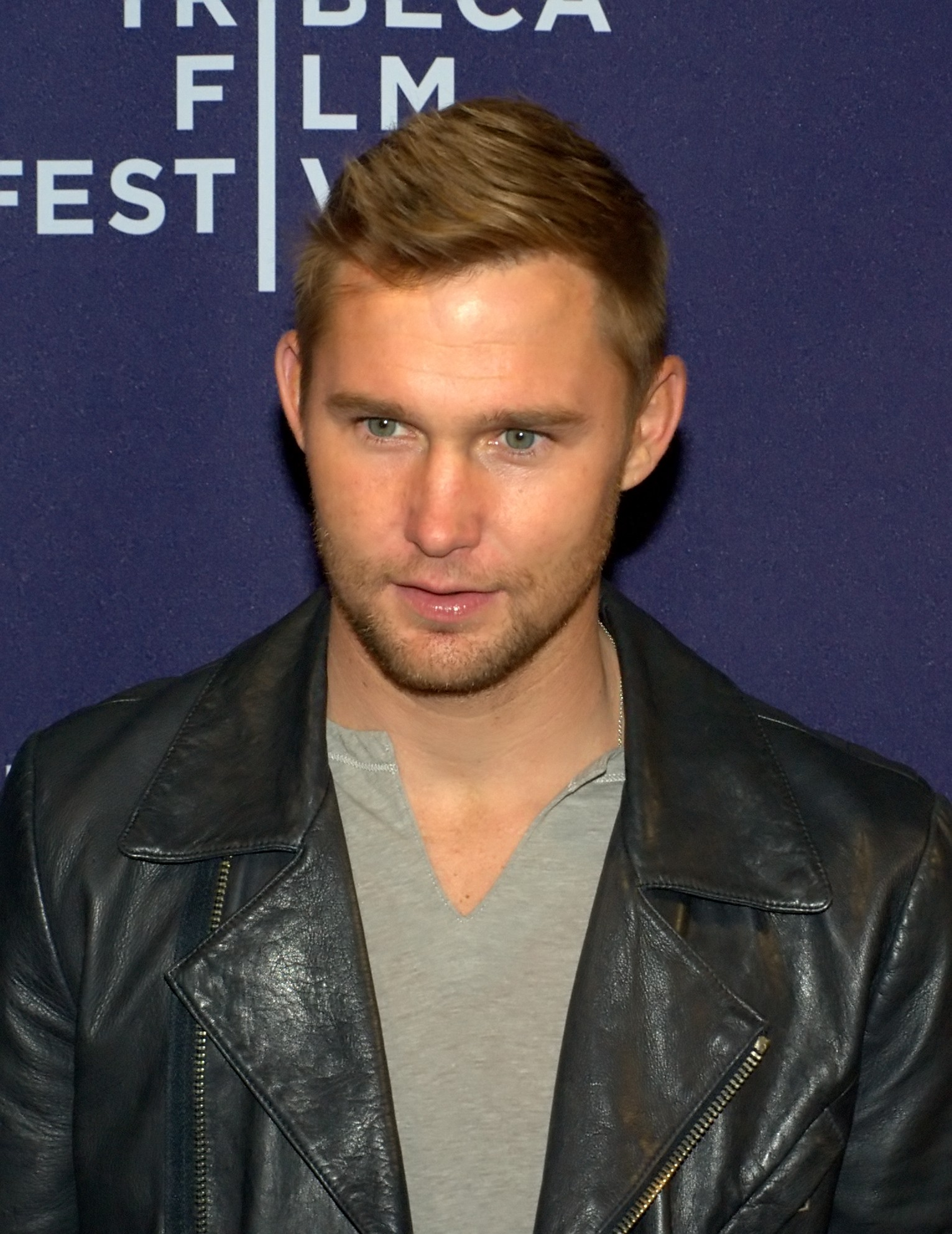 Brian Geraghty at 2010 Tribeca Film Festival